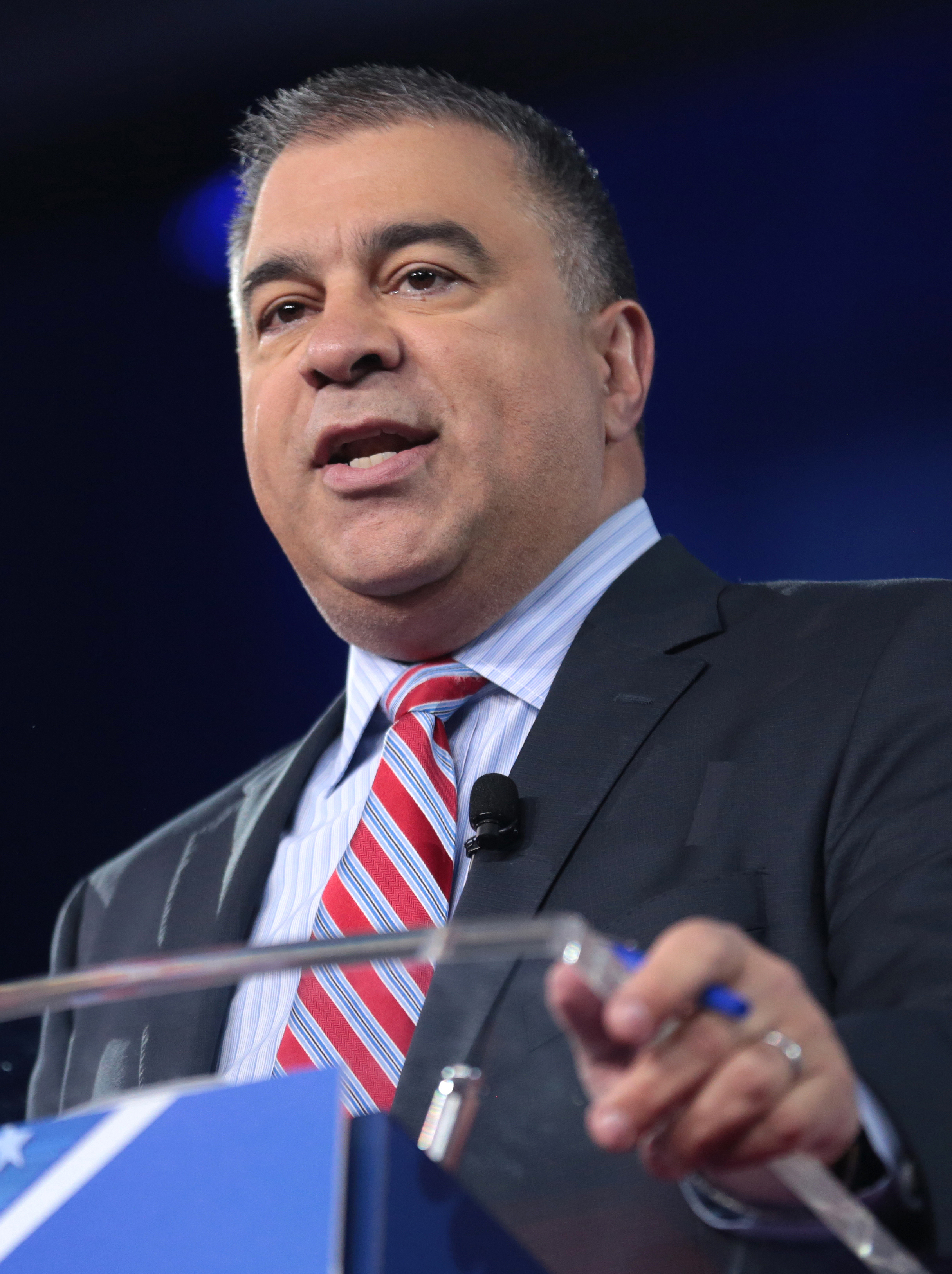 David Bossie speaking at the 2017 CPAC in National Harbor, Maryland.